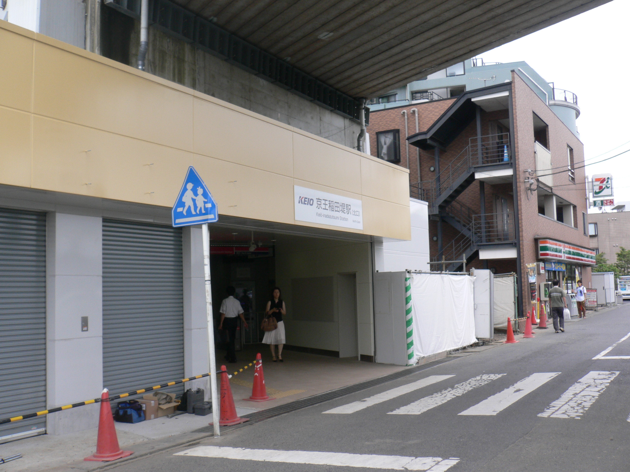 Keio Inadadutsumi Station, Tama W, Kawasaki C, Kanagawa P.